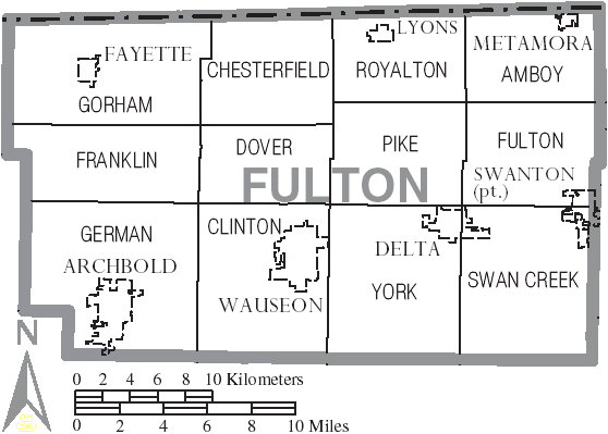 Map of Fulton County, Ohio, United States with township and municipal boundaries